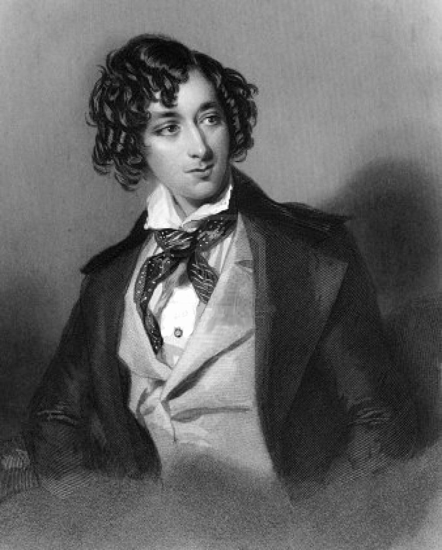 Young Disraeli, engraving 1839